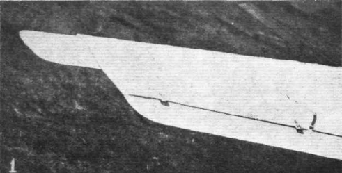 Wing tip alien linked "flap" on Daimler L20